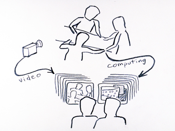 An original concept diagram for a Media Space.